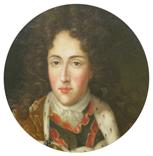 Anonymous 19th century painting of Léopold Joseph, Duke of Lorraine